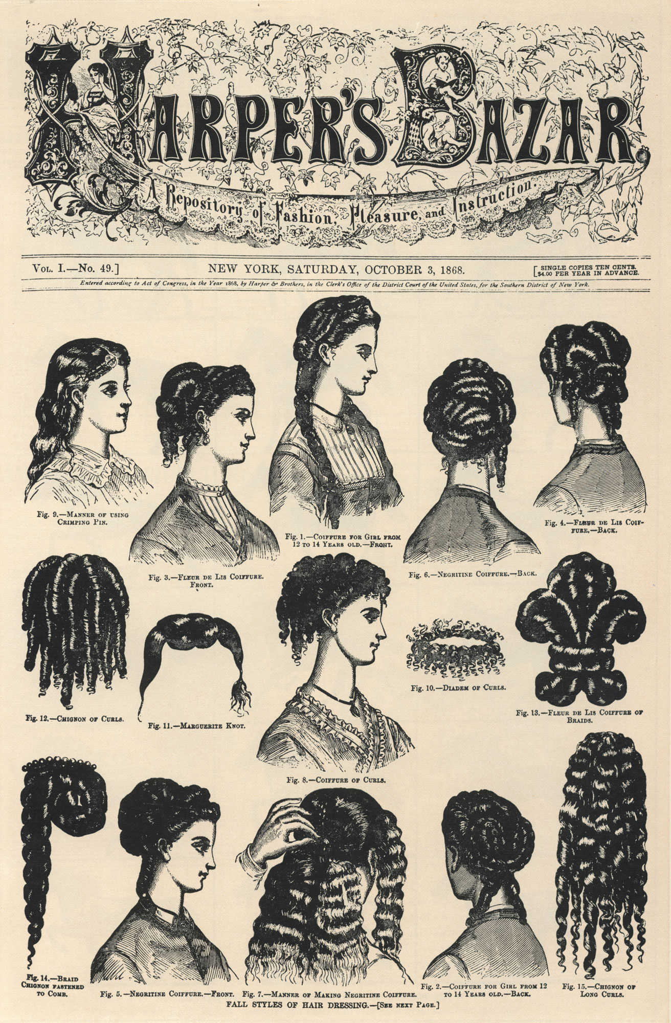 Cover of Volume I, No. 49 of Harper's Bazar (Now Harper's Bazaar), showing hairstyles